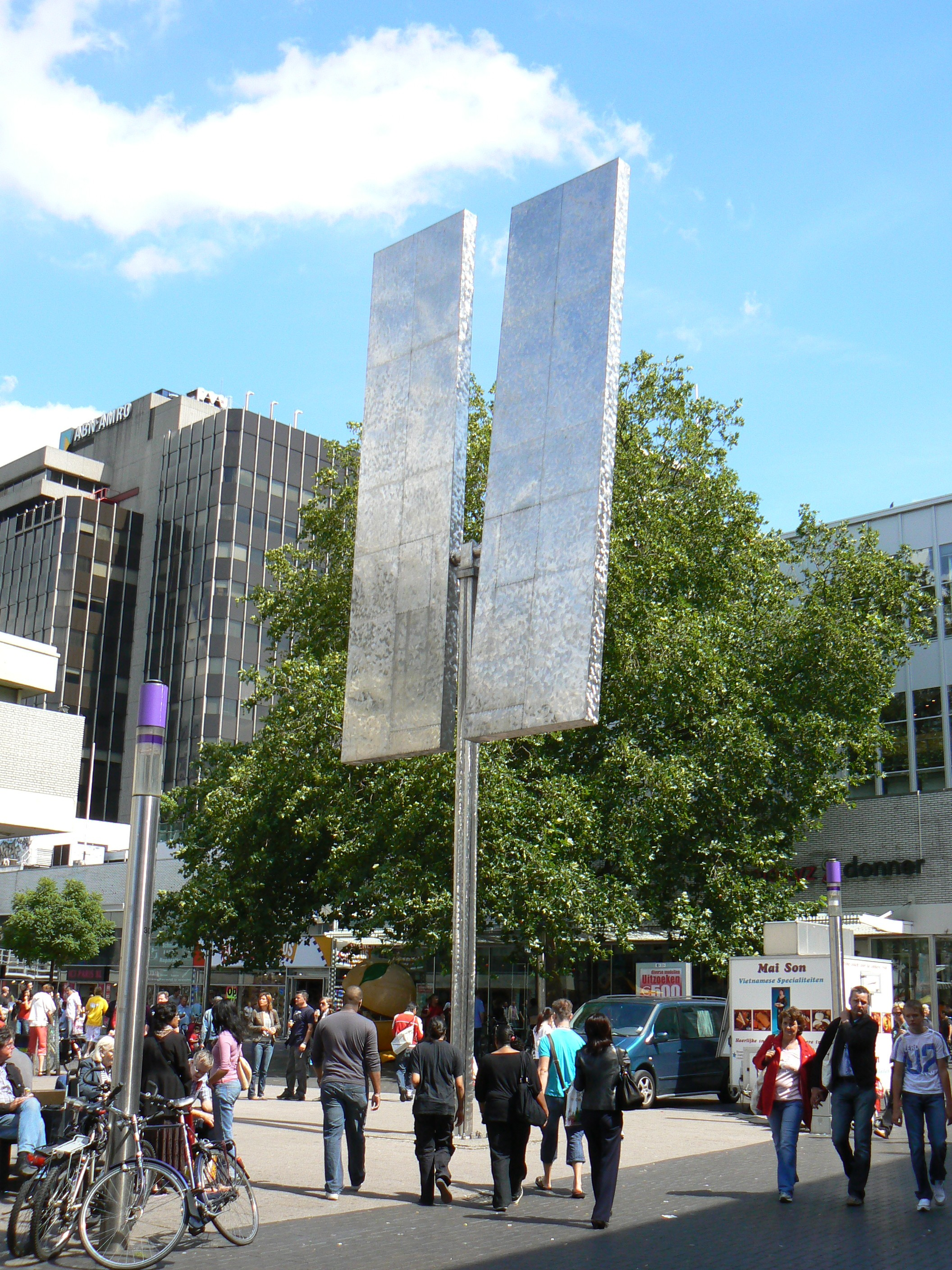 kinetic sculpture "Two Turning Vertical Rectangles"(1971) in Rotterdam/The Netherlands (FOP)